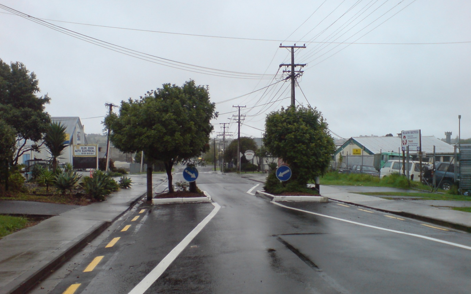 A kerb extension / gateway treatment which prevents trucks from going through a residential area to get to the industrial area just to the west of here. Seen looking west in Cartwright Road / Netherlands Avenue in Kelston, Auckland, New Zealand.